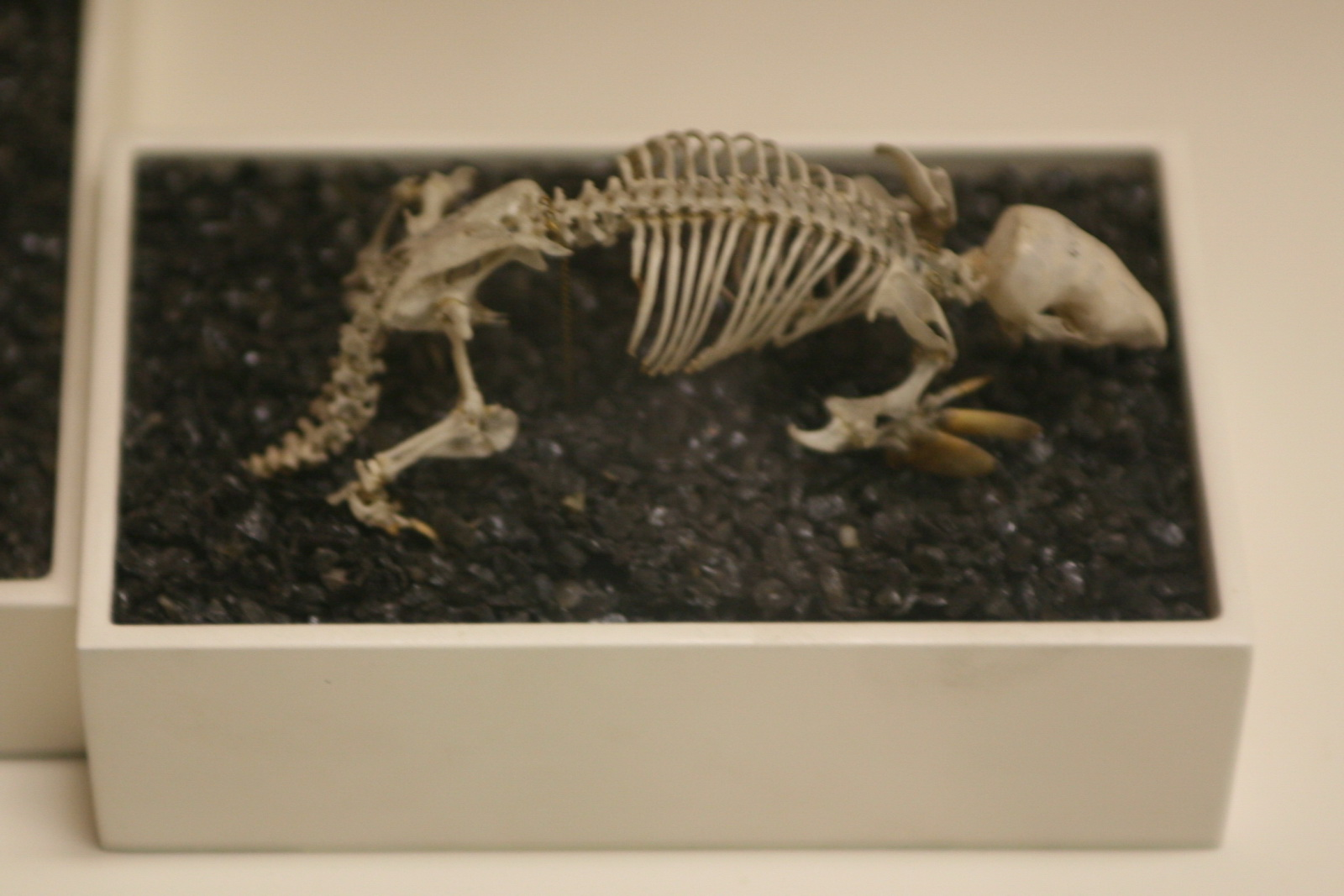 Notoryctes typhlops skeleton